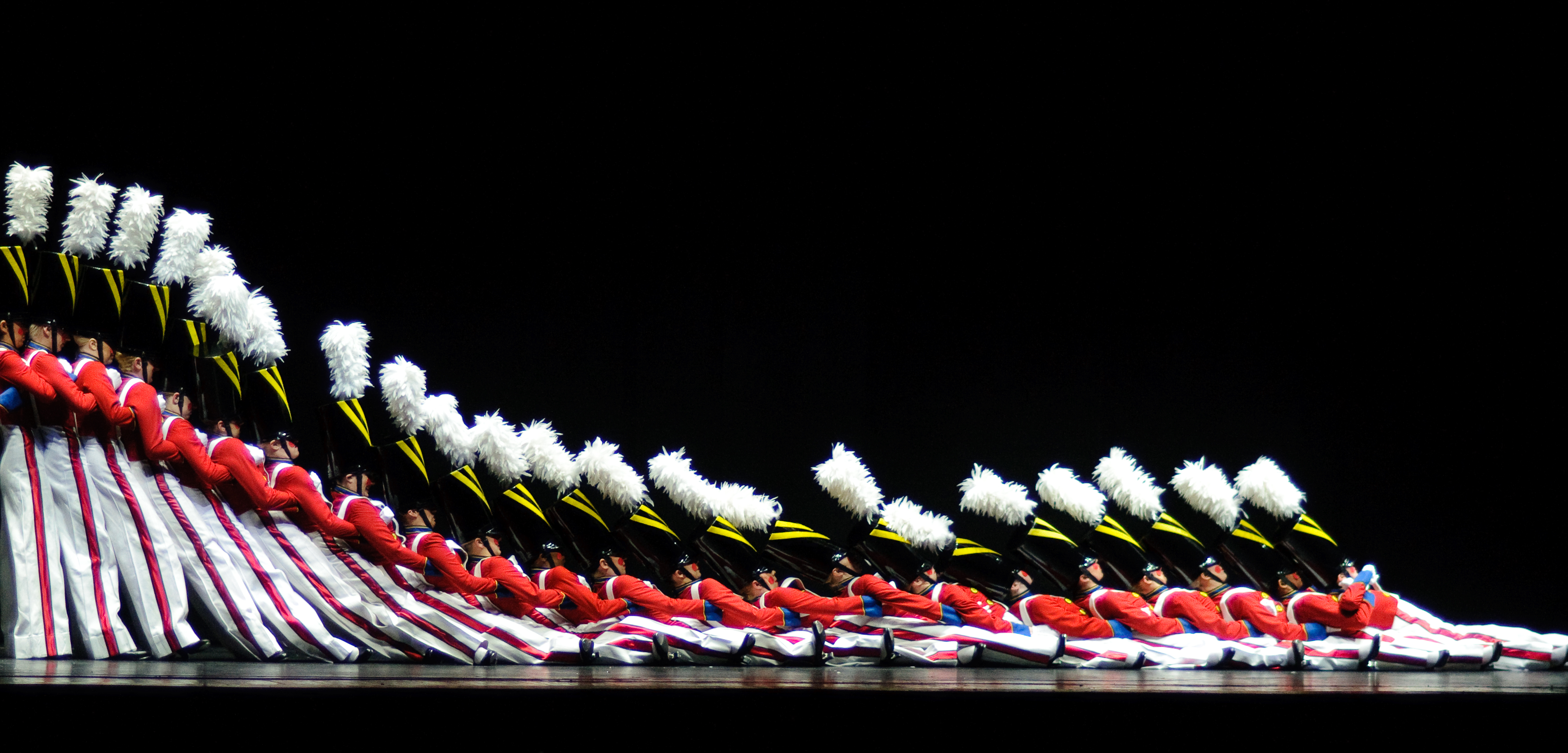 The Radio City Rockettes perform the March of the Wooden Soldier